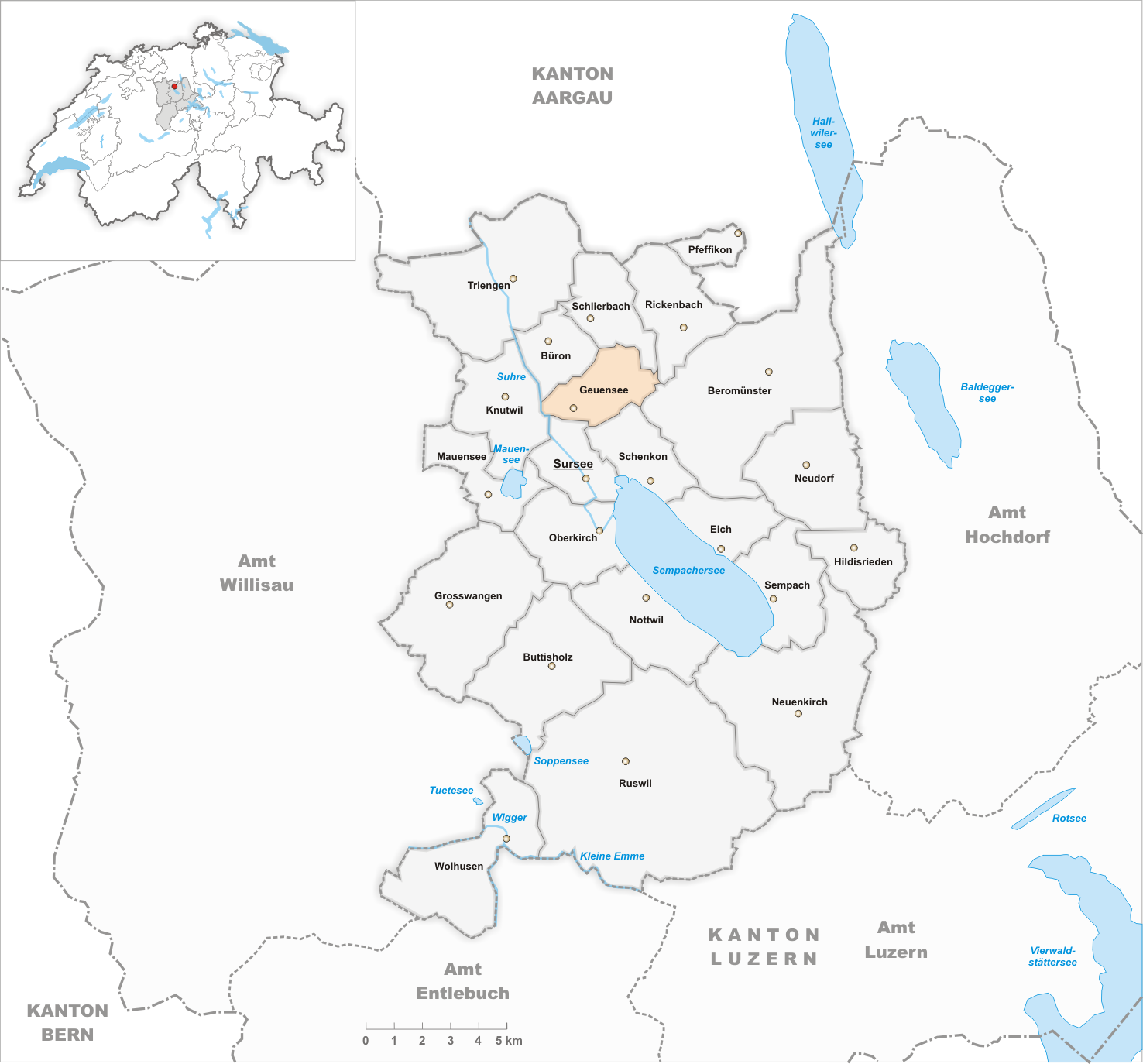 Municipality Geuensee